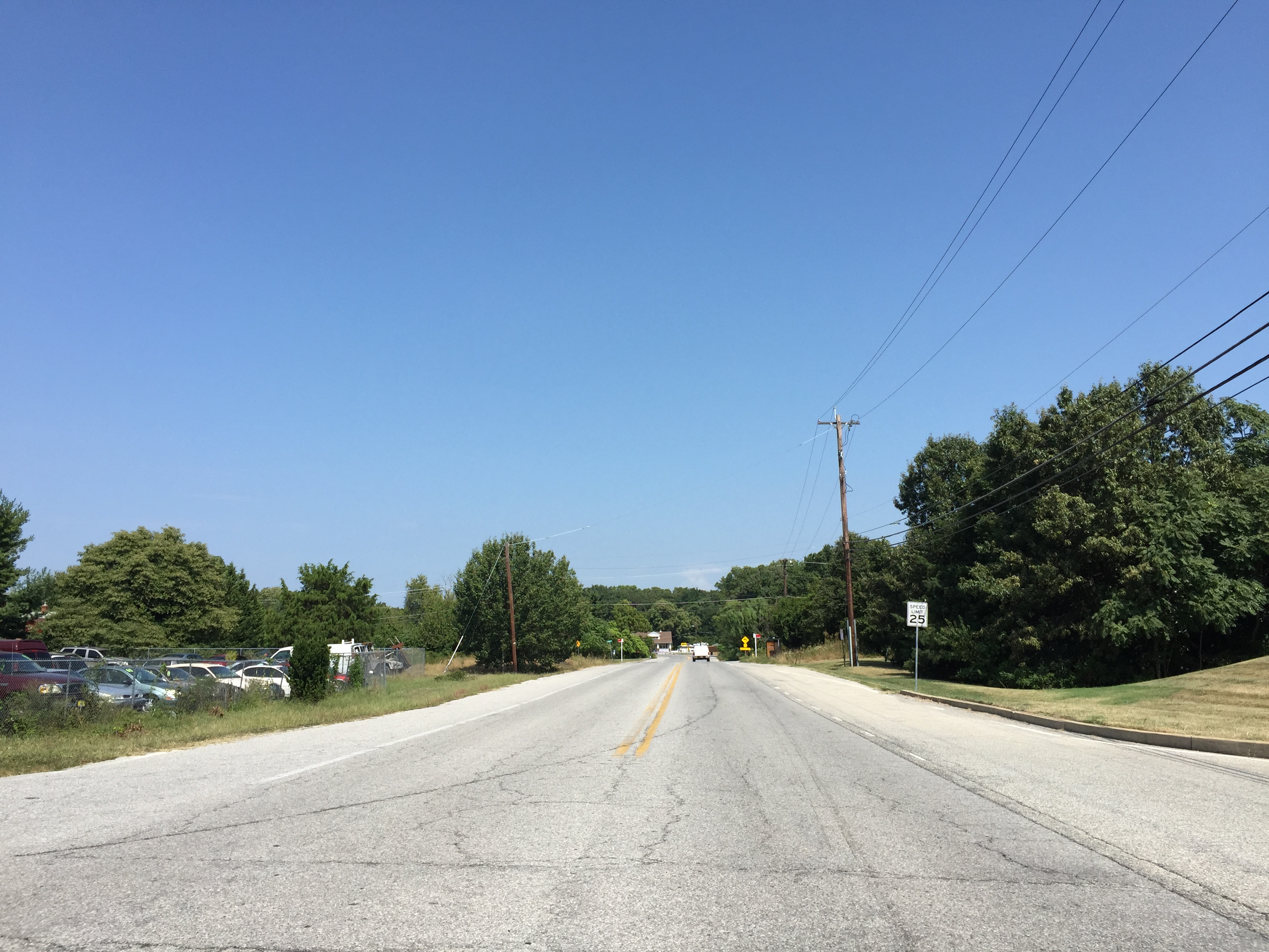 View north along Maryland State Route 967 (Old Branch Avenue) at Coach Lane in Silver Hill, Prince Georges County, Maryland